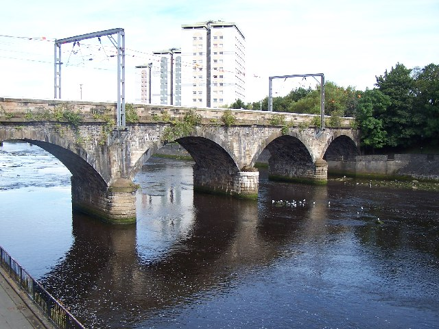 Ayr Viaduct. built 1856, re-built 1878 for the Glasgow and Belfast railway.